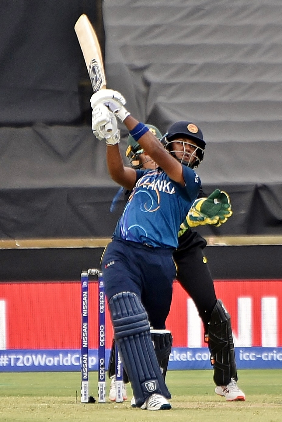 Chamari Atapattu batting for Sri Lanka against Australia during their 2020 ICC Women's T20 World Cup match at the WACA Ground in Perth, Australia